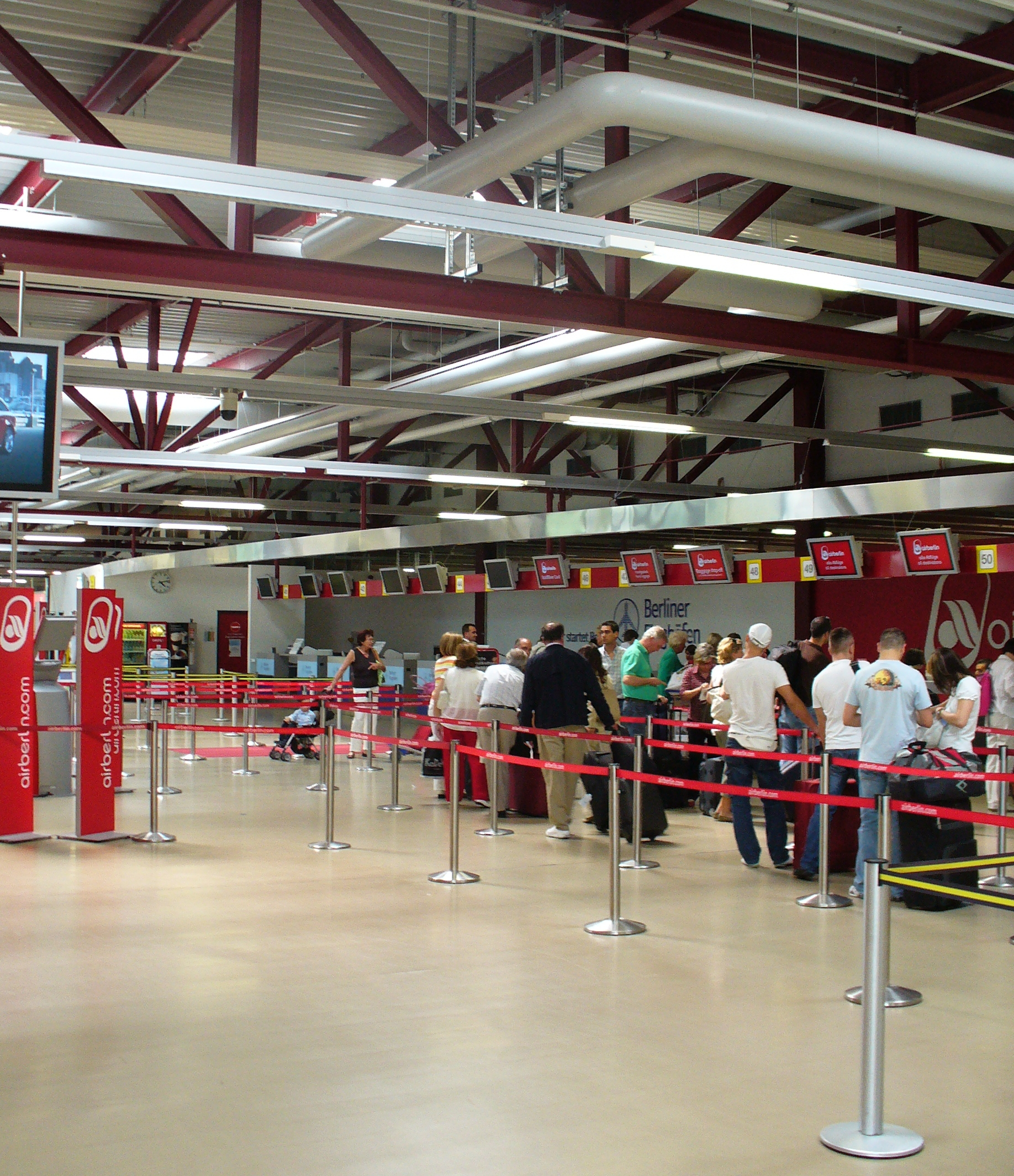 Interior view of Terminal C at Berlin Tegel Airport